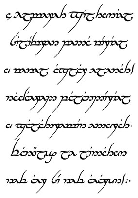 The long version of A Elbereth Gilthoniel, also known as Aerlinn in Edhil o Imladris (Hymn of the Elves of Rivendell), written in Tengwar script using the mode of Beleriand.